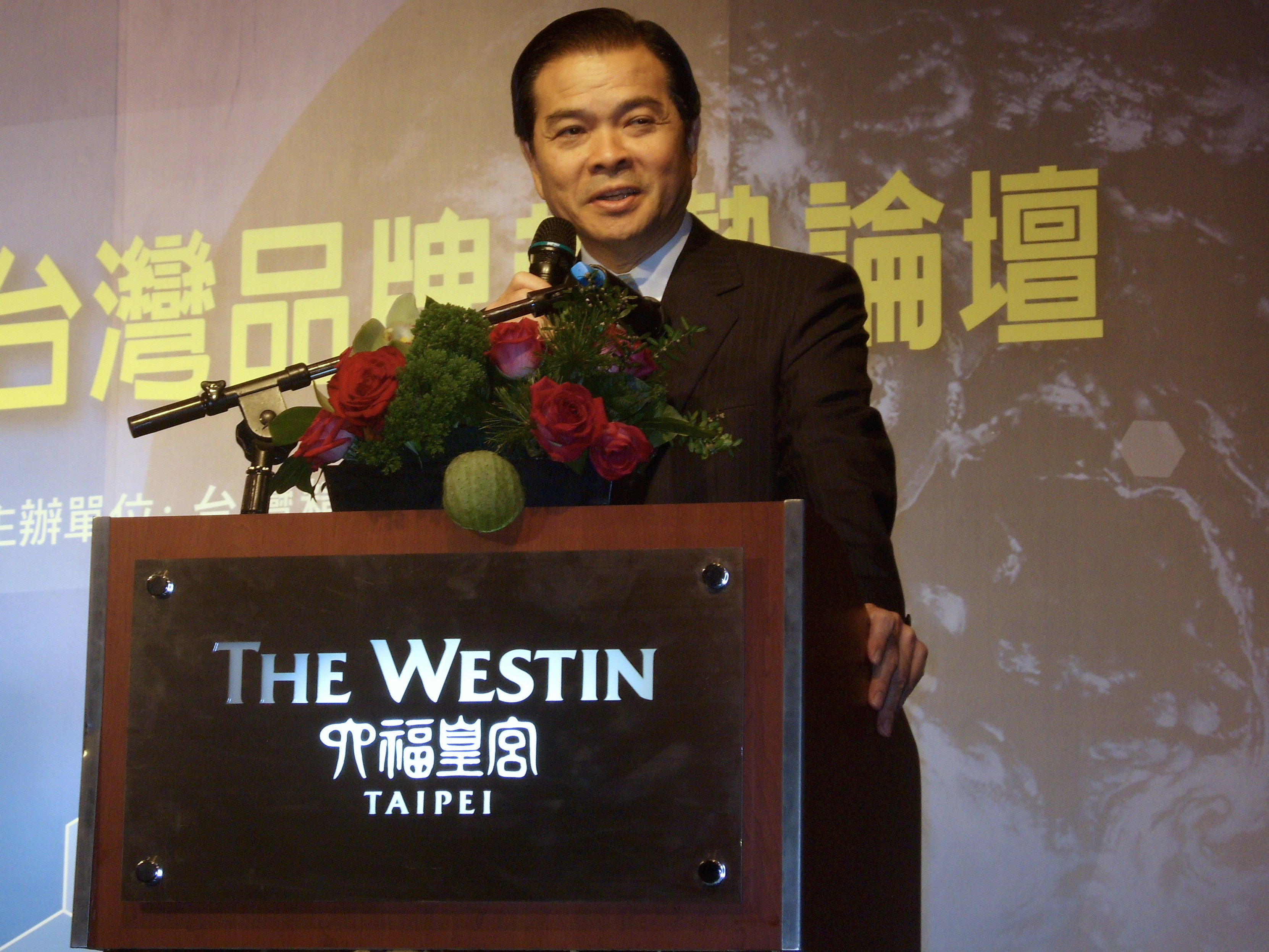 2007 Taiwan Brands' Trend Forum: Steve Ruey-long Chen, Minister of Economic Affairs of Taiwan.